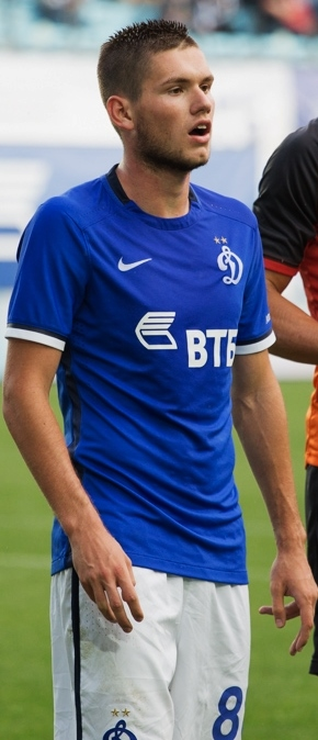 Aleksandr Tashayev